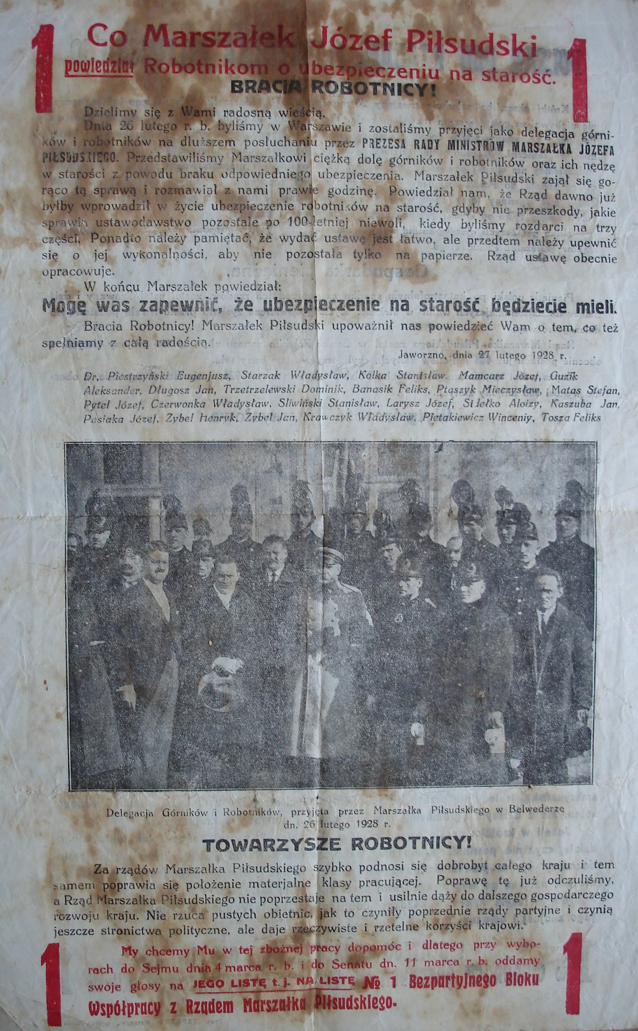 Scan of the old leaflet